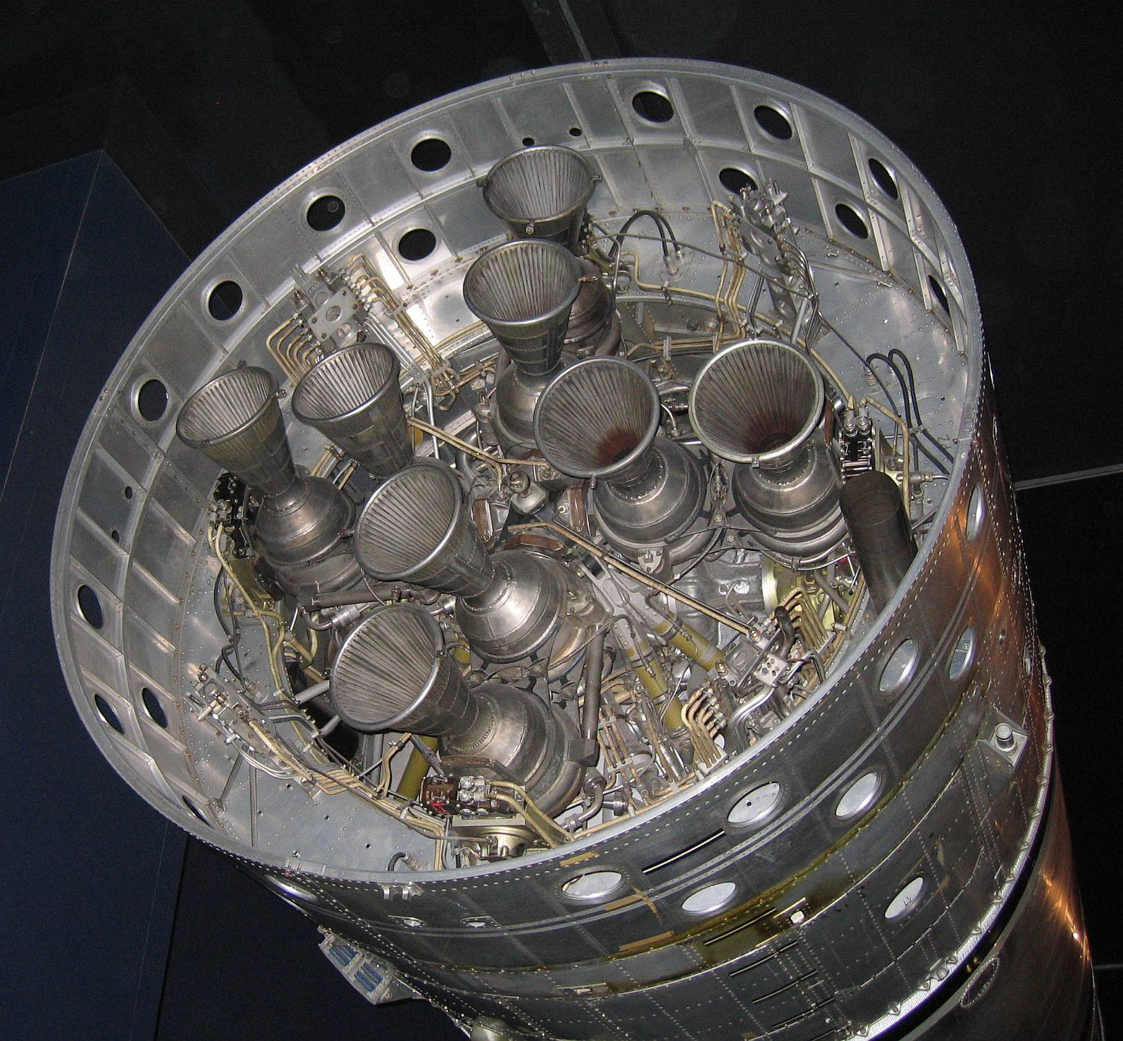 Gamma 8 rocket engine, used for the first stage of the Black Arrow launch vehicle. On display at the Science Museum, London